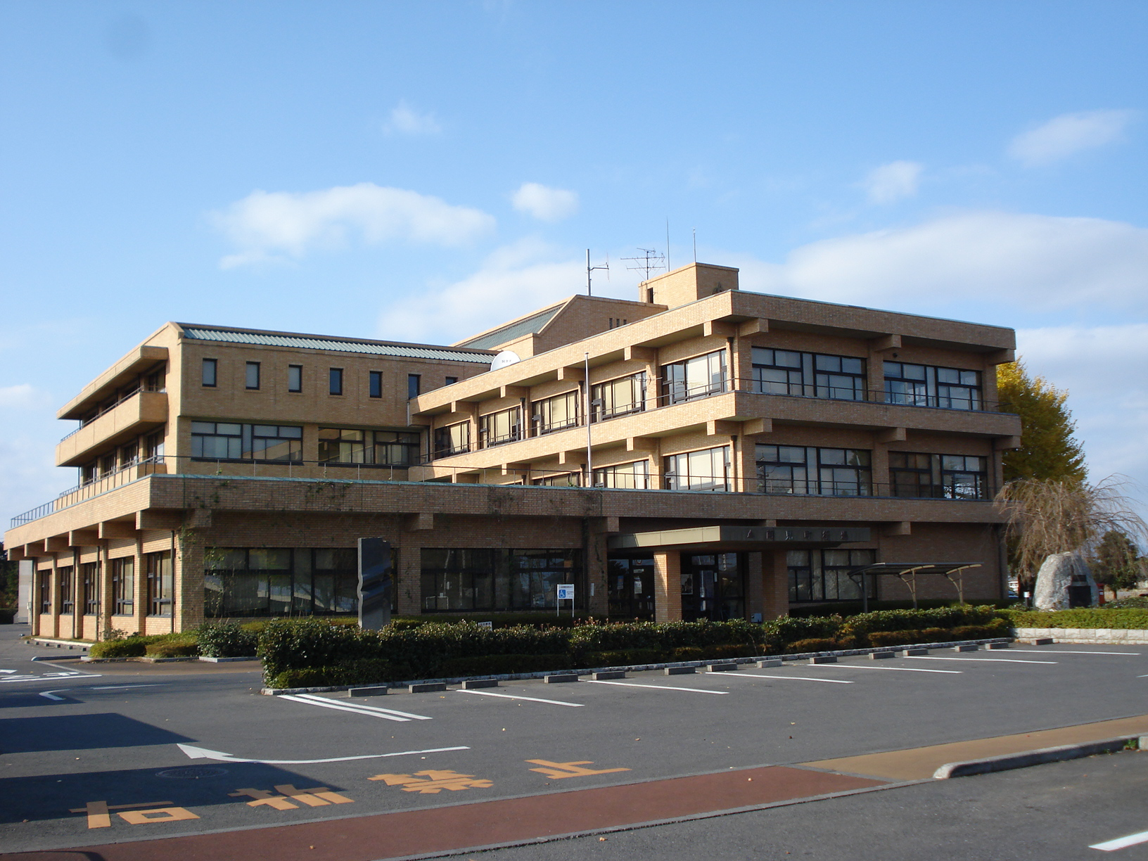 Ami Town Hall